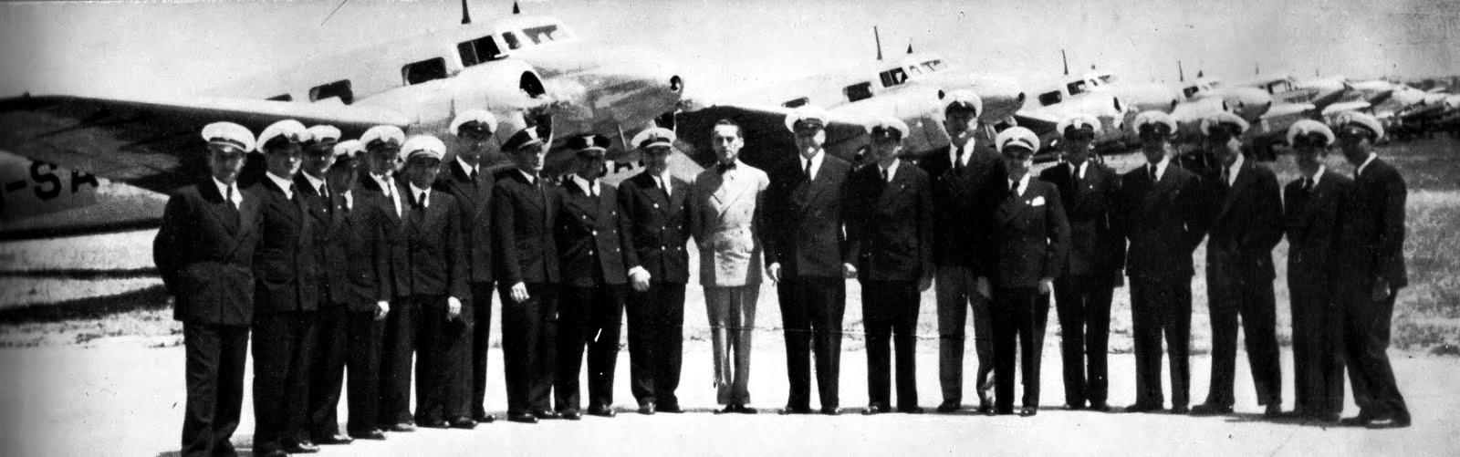 Aeroput founder Tadija Sondermajer surrounded by airline's pilots